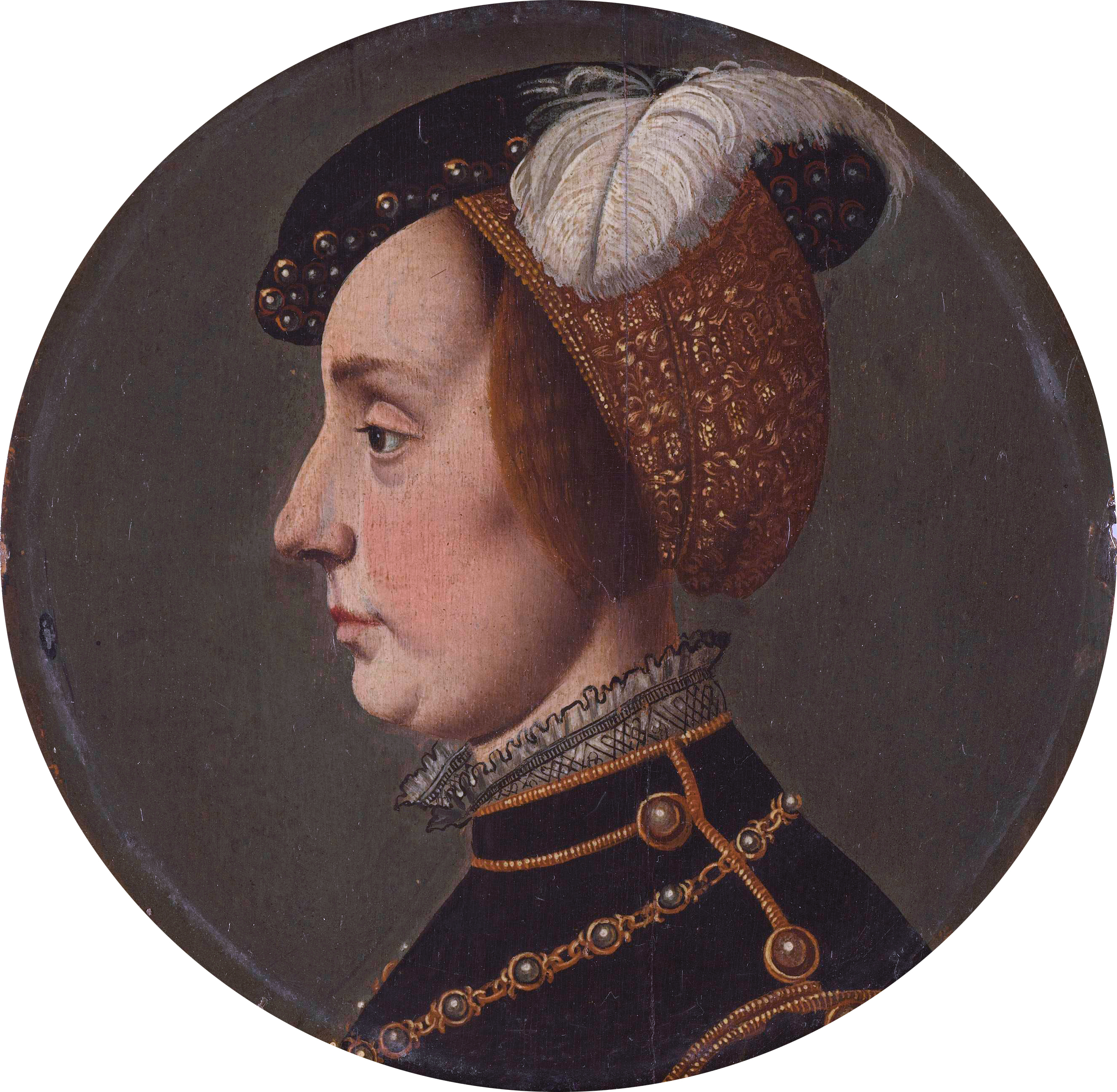 Pendant of File:René de Châlon (ca 1518-44), by Jan van Scorel.jpg